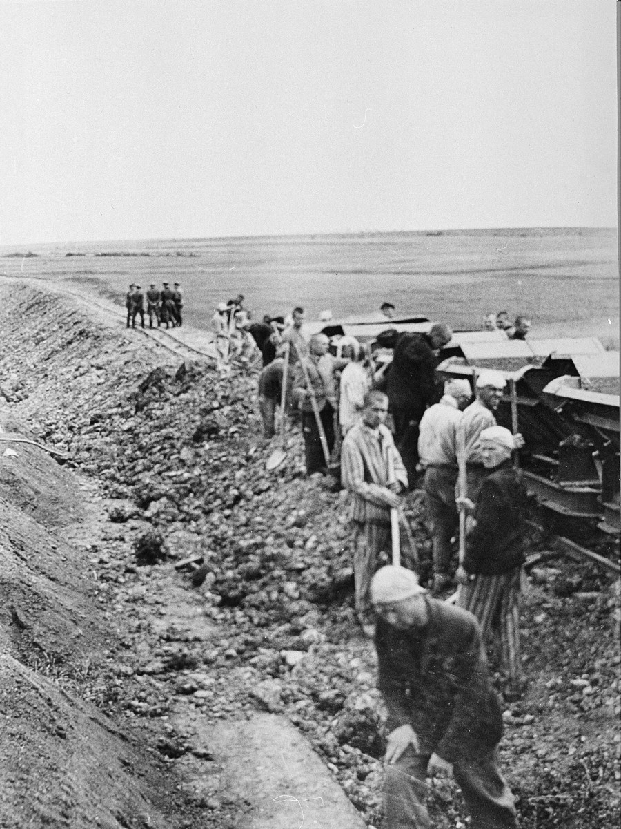 Prisoners from the Buchenwald concentration camp at forced labor building the Weimar-Buchenwald railroad line.